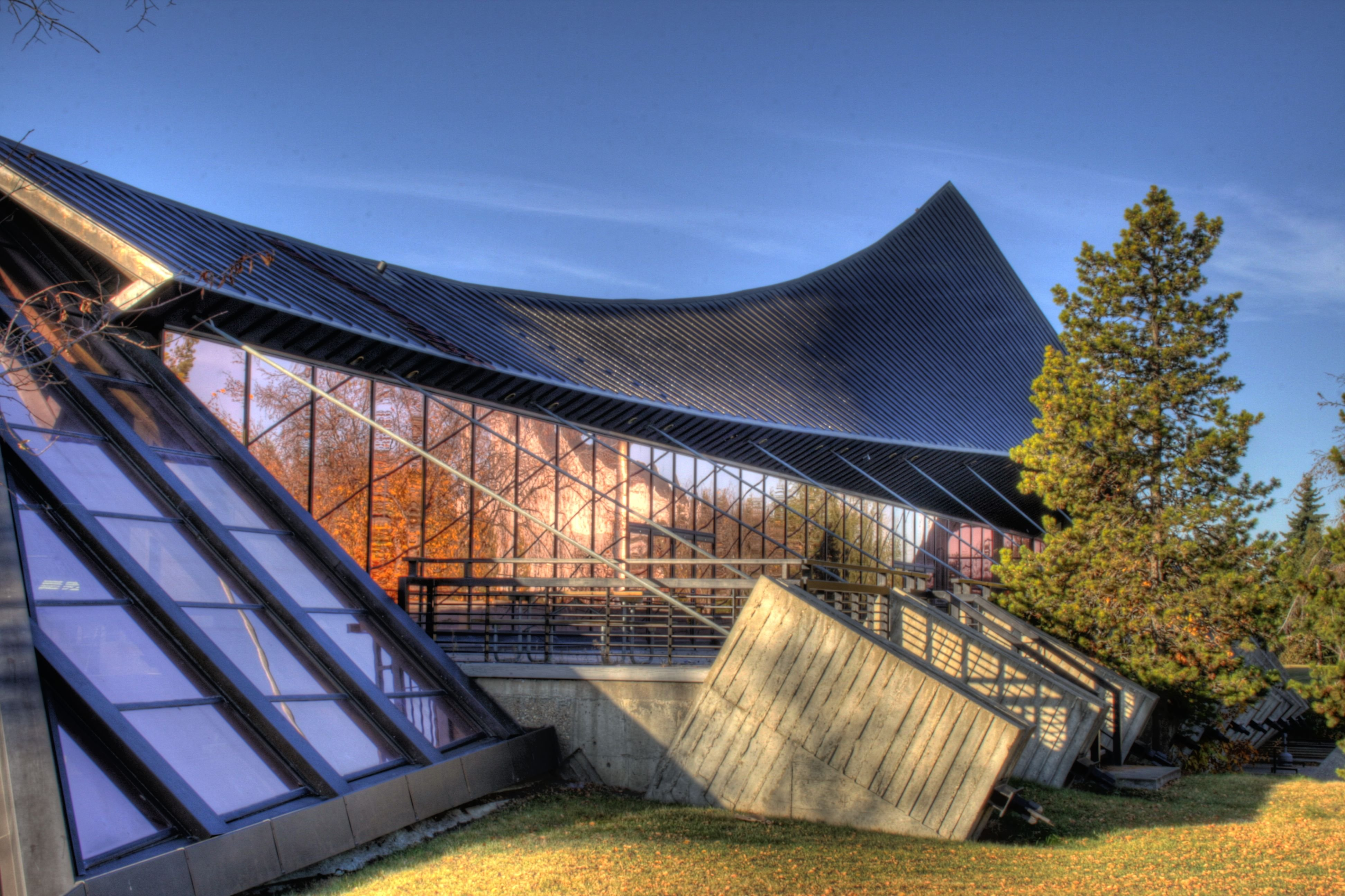 Coronation Leisure Center in Edmonton, Alberta, Canada.